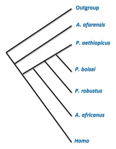 Based upon Skelton & McHenry, 1992 (Rendered via MS Word)